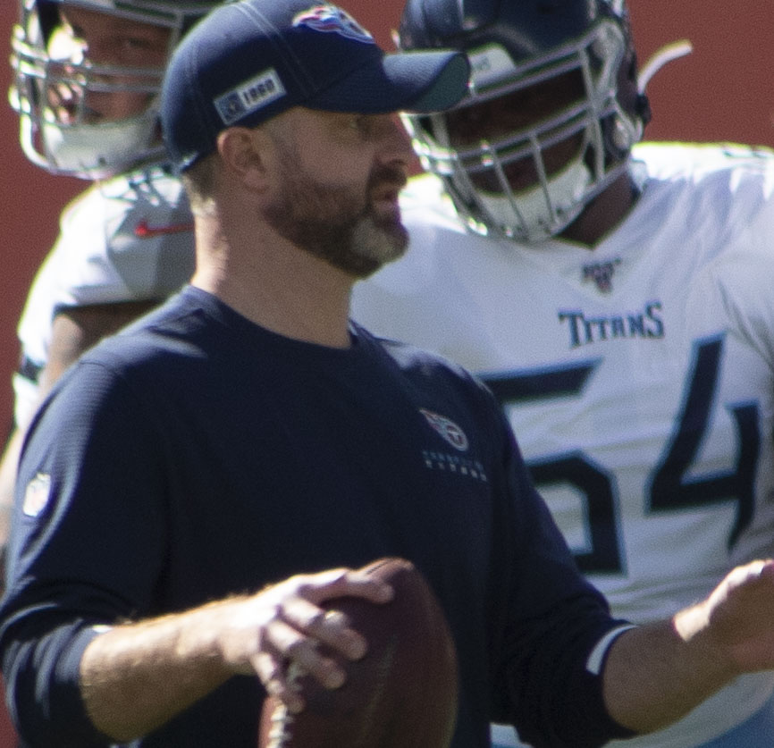 Bowen with the Titans on October 13, 2019